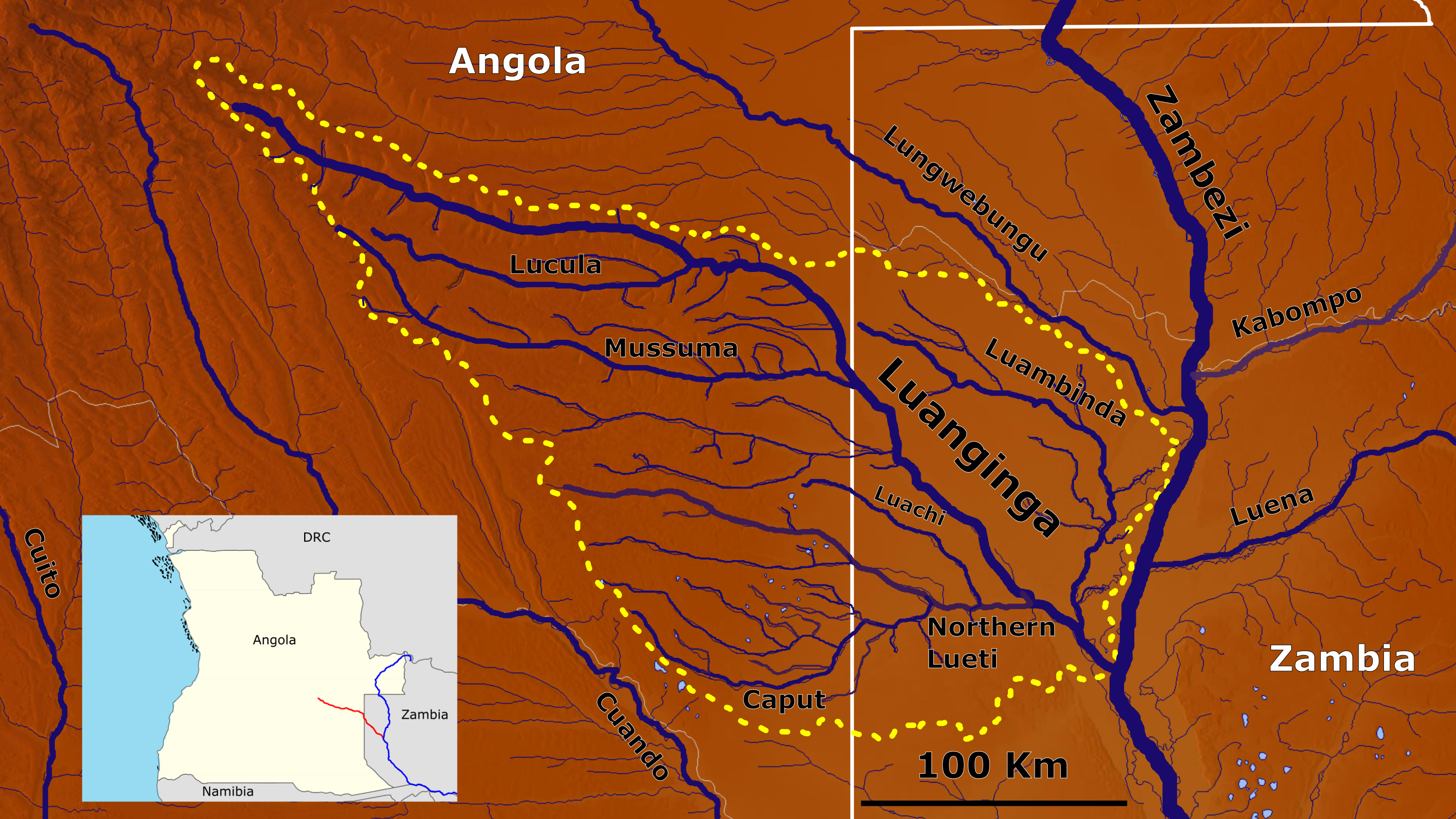 The Luanginga catchment OSM (XML of SVG dont work)